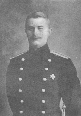 Golenishchev-Kutuzov, Sergey Aleksandrovich.